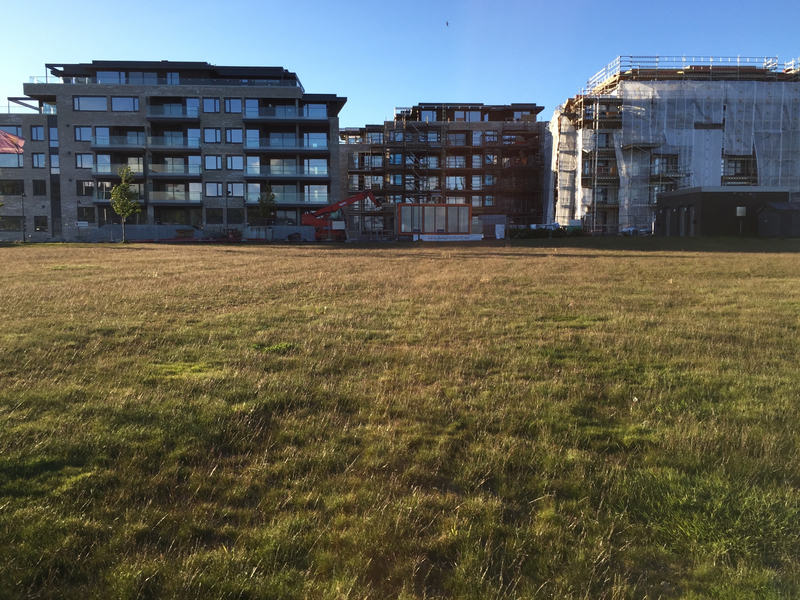 Ytre Tangen, Kristiansand